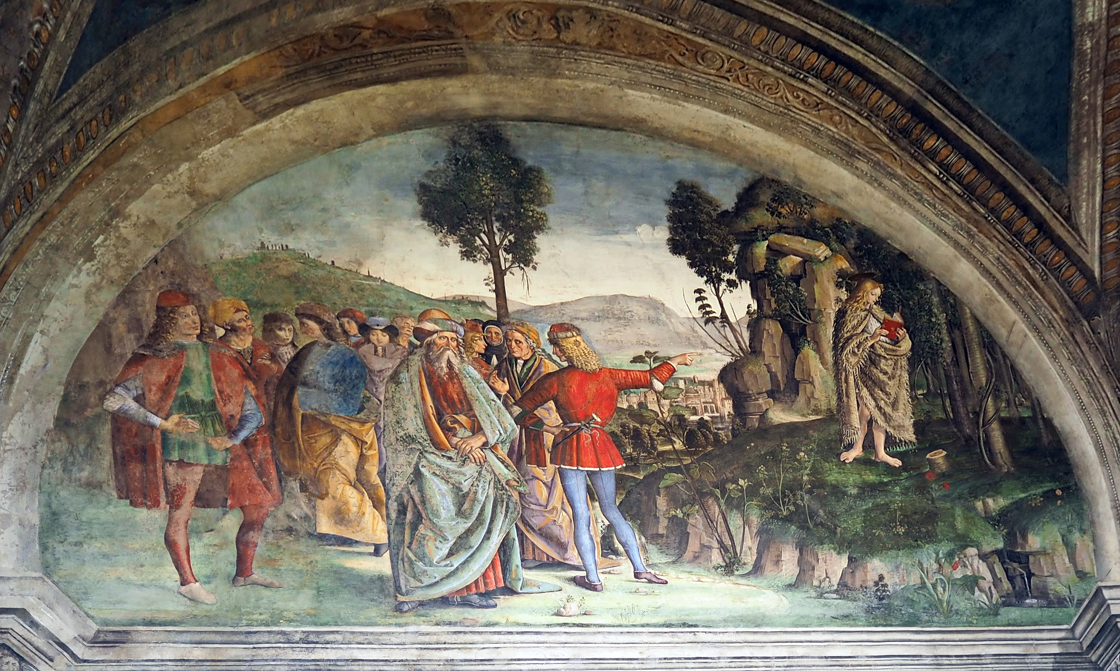 Santa Maria in Aracoeli (Rom), Cappella Bufalini, Left superior